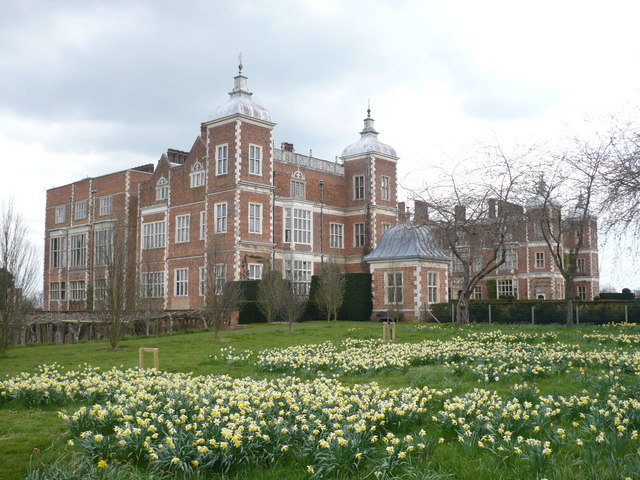 Hatfield House This "new" house was built for Robert Cecil, son of William, Lord Burghley. The house took 4 years to build and was finished just after Robert died in 1612. In 2007, Hatfield House celebrated 400 years as the seat of the Cecil family.